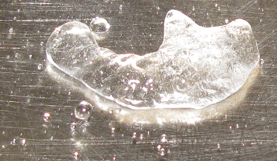 Water drop inertial motion on hot surface